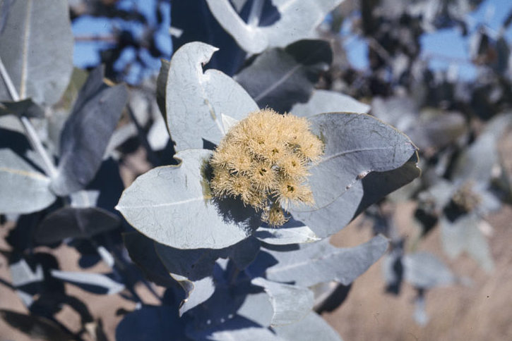 Flowers of Eucalyptus pruinosa Northwest of Riversleigh, Queensland